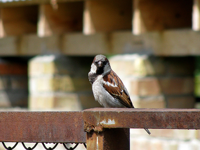 A male House Sparrow looking straight into the camera while sitting on a fence of an old soviet kindergarten-like house in Kiev's Rusanovka disctrict.